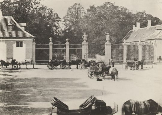 Horse carridges in front of the main entrance to Frederiksberg Gardens at Frederiksberg Runddel in the Frederiksberg district of Copenhagen, Denmark